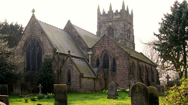 Holy Cross Church A photograph of the eastern and northern façades of Holy Cross Church, Morton and taken from the churchyard that overlooks 377757. Although substantially rebuilt by the Victorians the church retains its 381794. The church stands, surrounded by its 378994. The grounds are entered from the north via public footpath that connects 379248 to 381108 and from the south by a 378972. For a photograph of the memorial stone to 2361 Coms Eric W. P. Stamper, click here 381463. See also this photograph by Nikki Mahadevan, 230345. A four second recording of the church bells can be heard here (© Karl Grave) and is part of this web page